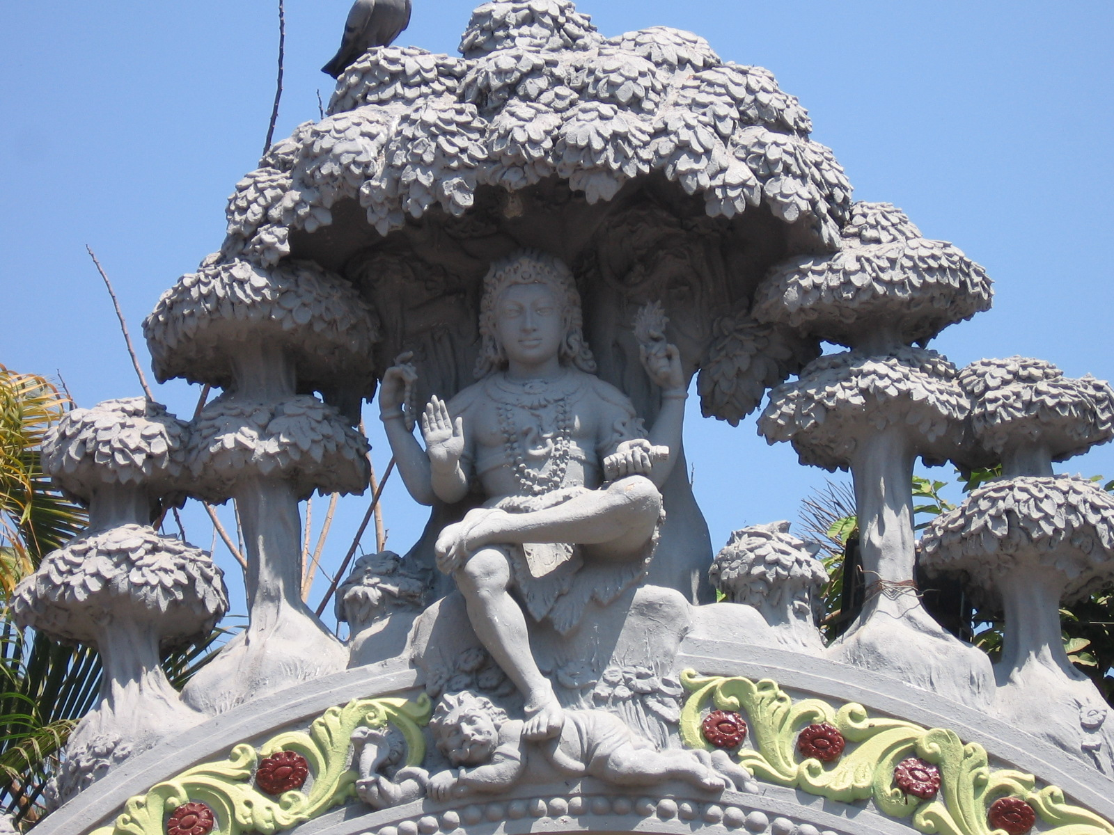 Lord Shiva at Dharmasthala